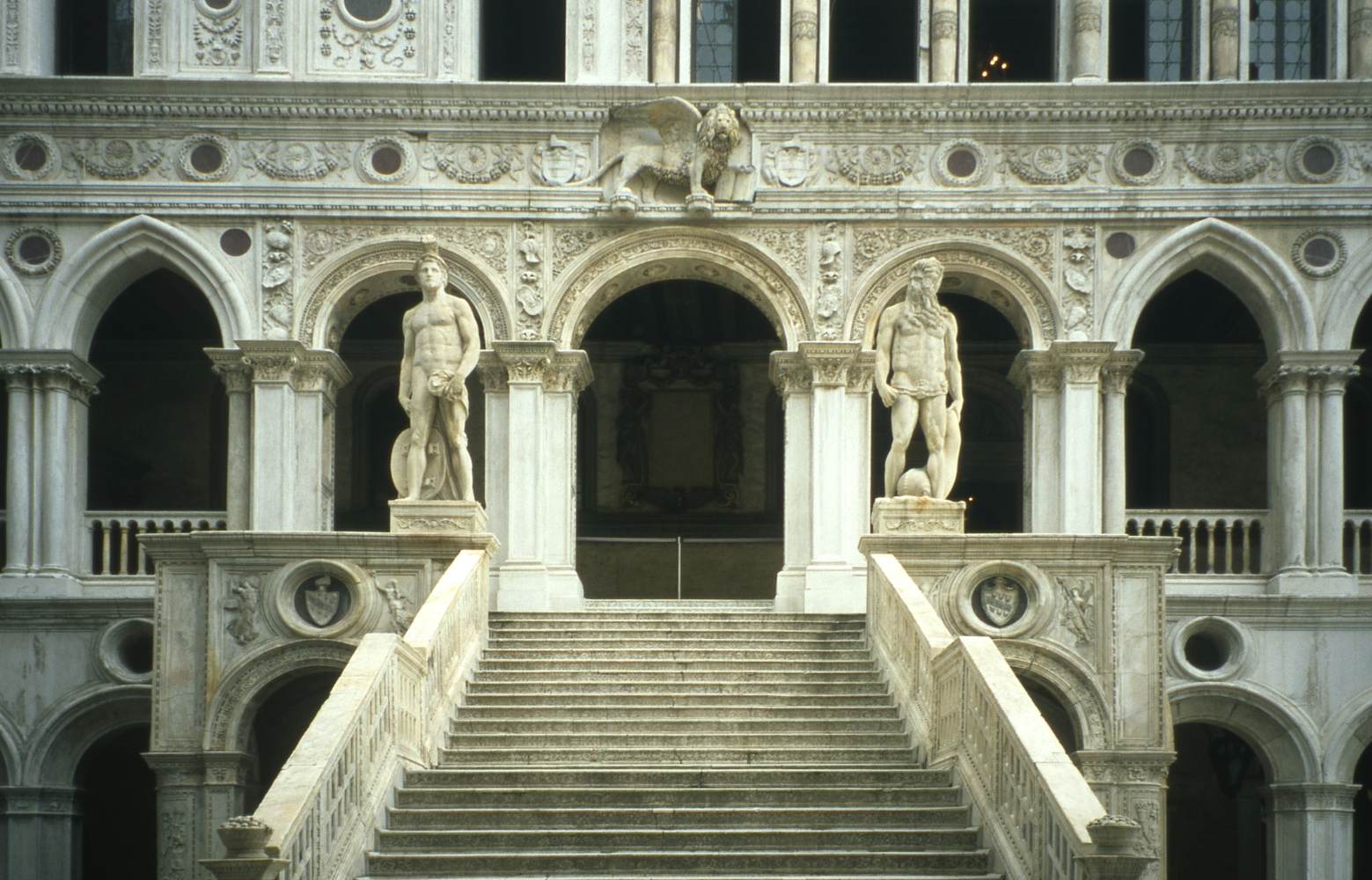 Entrance of Doge's Palace in Venice